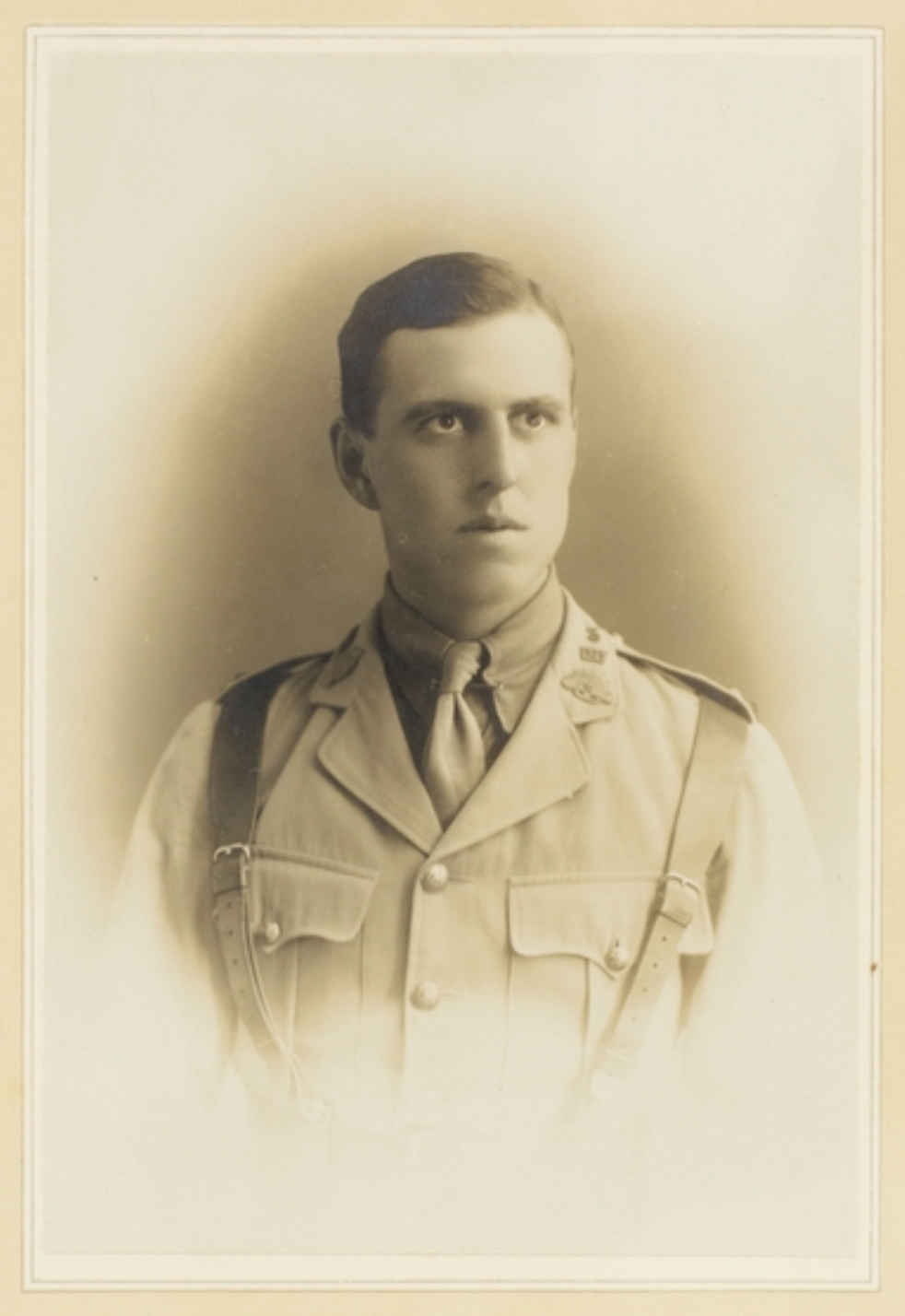 Lieutenant Lawrence Street in Army attire